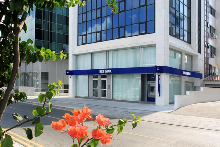 RCB Bank Dasoupolis Branch at Limassol Avenue in Nicosia